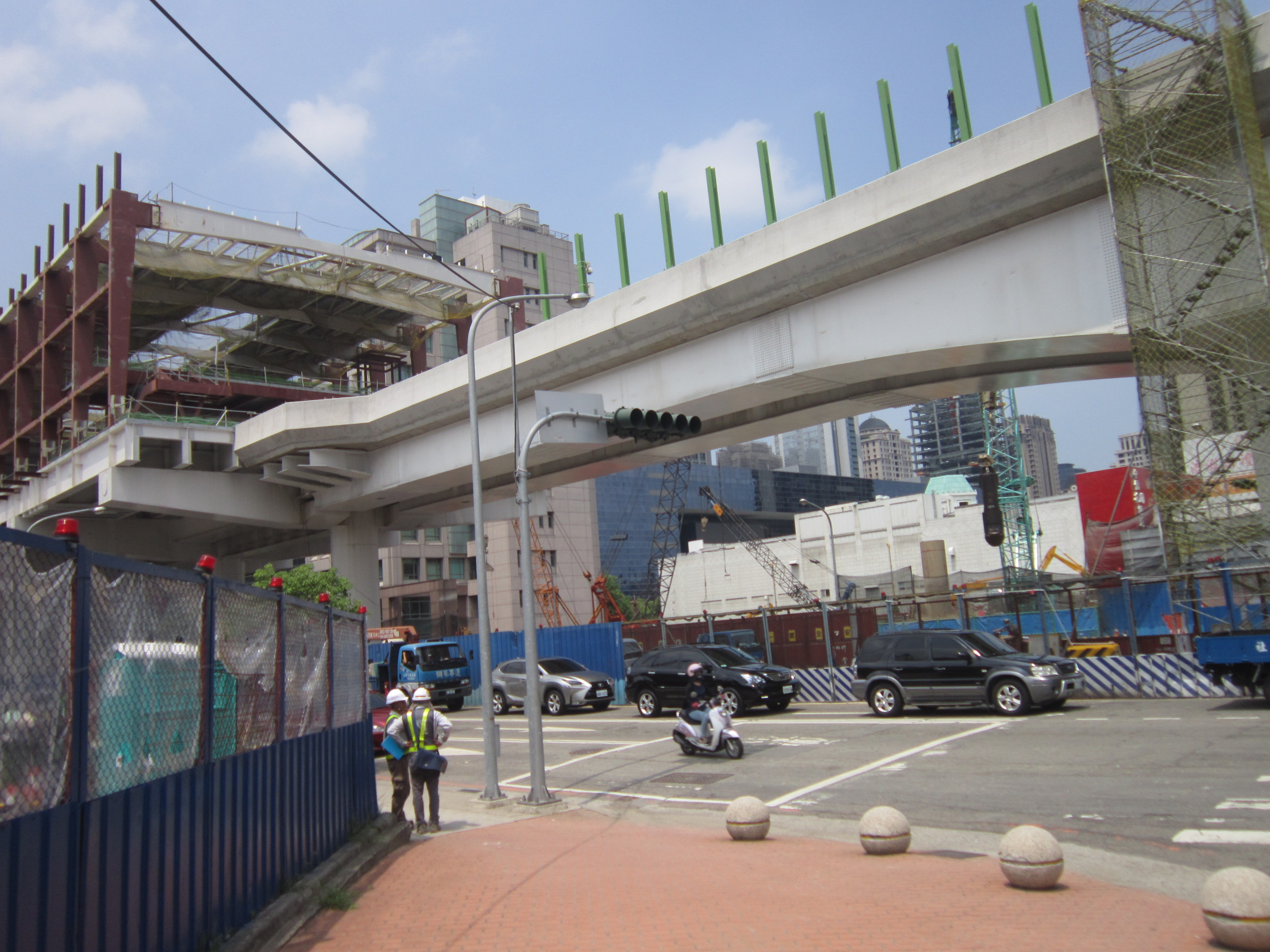 Taichung_City_Hall_Station(Taichung MRT)